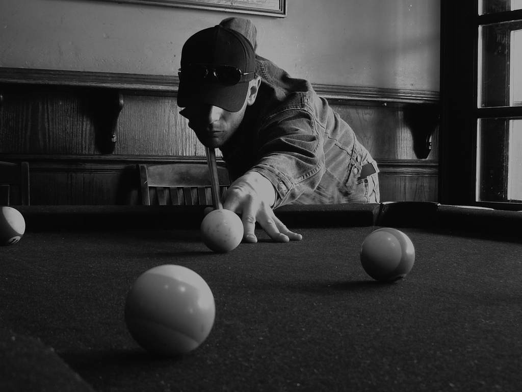 Pool player.